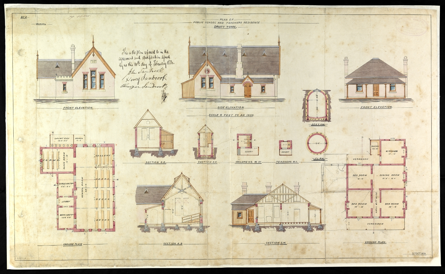 Plan of Public School and Teachers Residence, Druitt Town Dated: 25 October 1879 Item: [SR Plan X17.6] Rights: We'd love to hear from you if you use our maps/plans. This plan is from the series: Government Architect, Plans and Specifications of Schools and School Residences, 1861-1910 [X14-18] Many other photos in our collection are available to view and browse on our website using Photo Investigator.